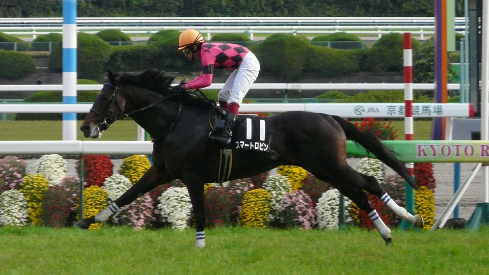 Smart-Robin20111112